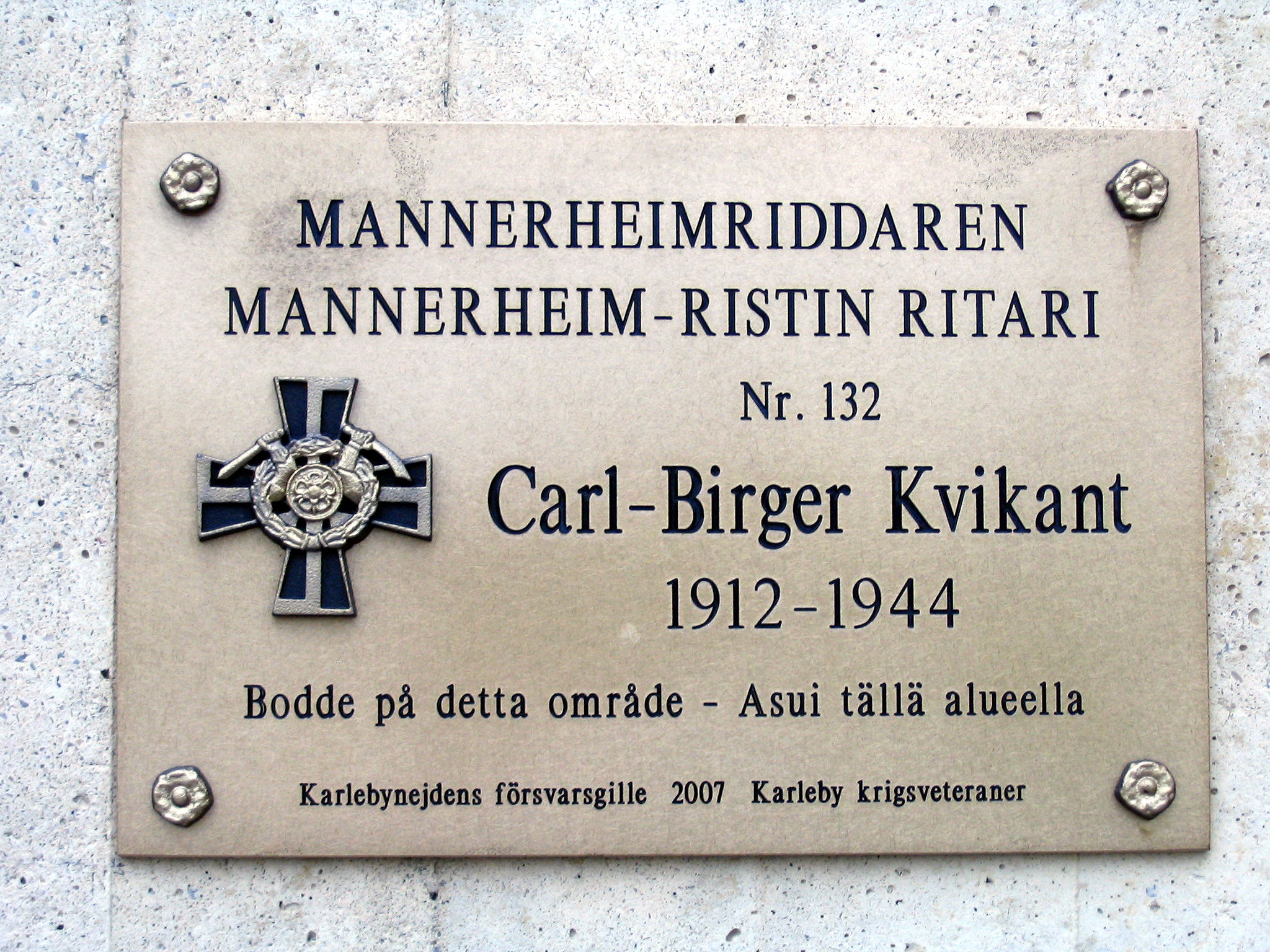 The memorial plate of Mannerheim cross holder Carl-Birger Kvikant, in Kokkola, Finland.